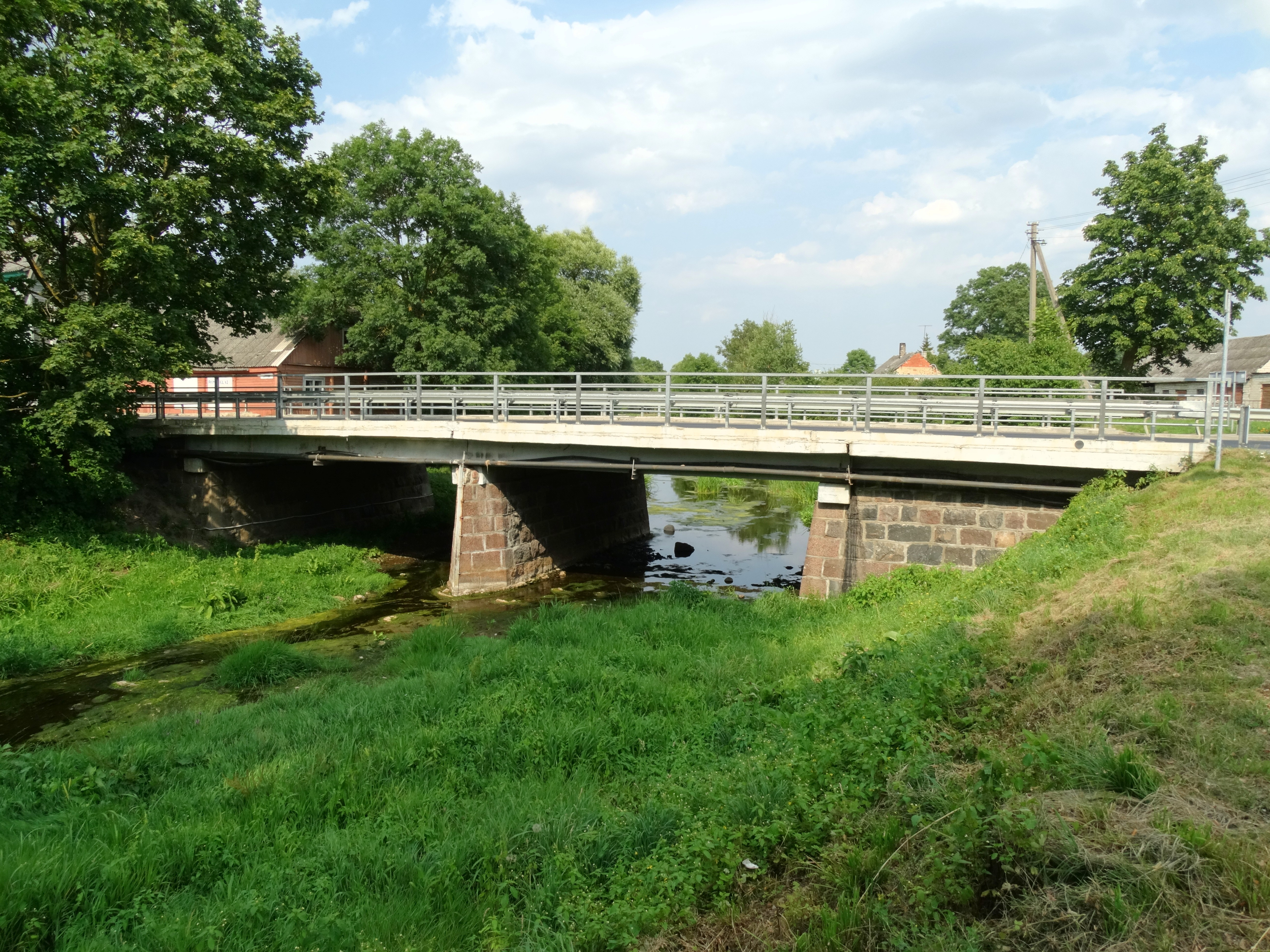 Bridge on Švėtė River, Žagarė, Joniškis District, Lithuania